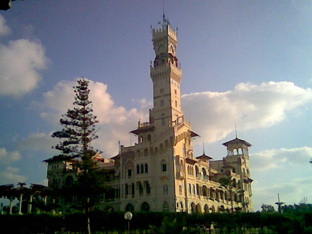 Alexandria Montazah Palace